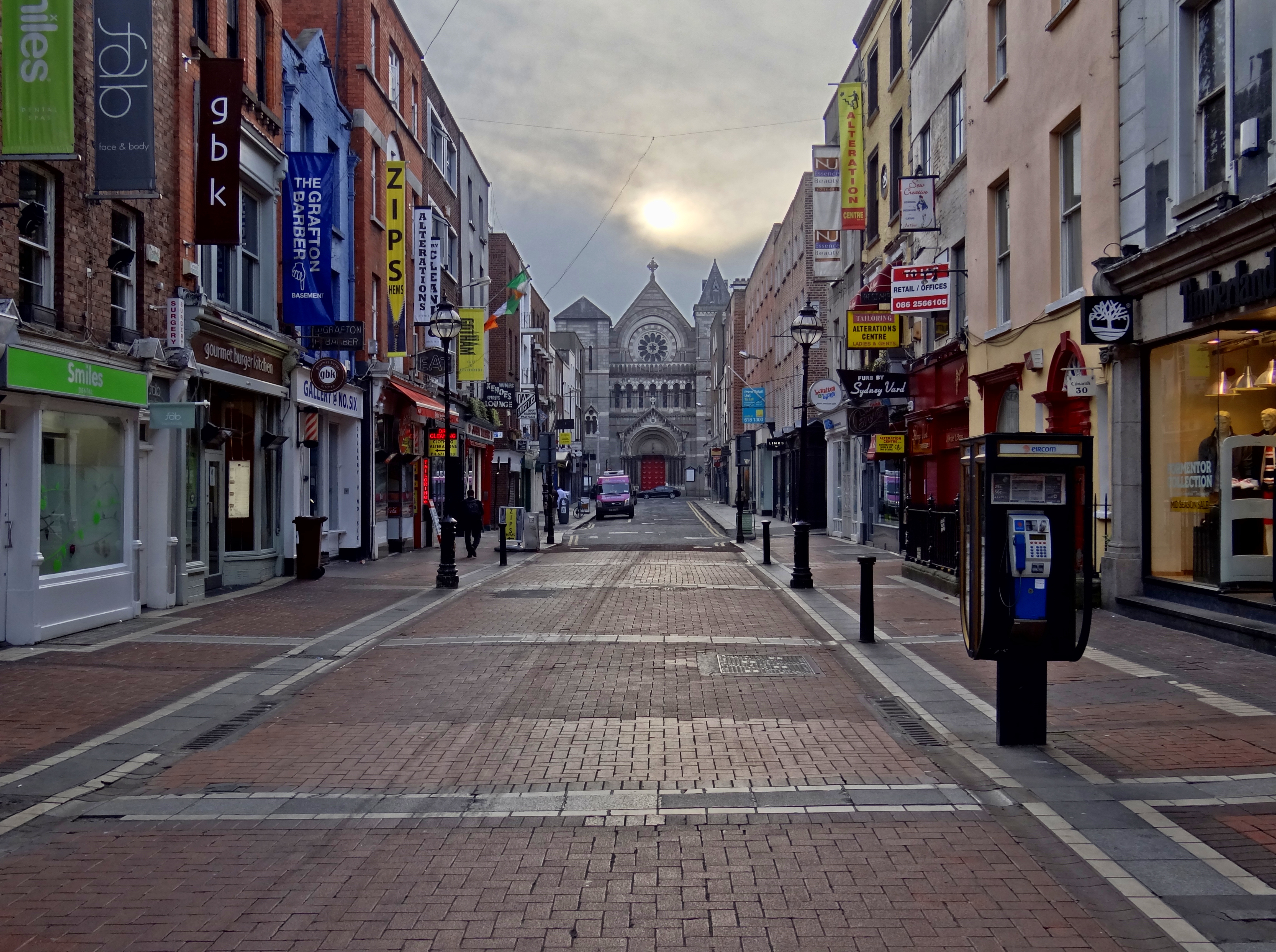 St. Ann's Church at the eastern end of Anne Street in downtown Dublin on an early morning in March.